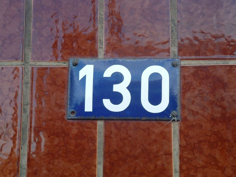 House Number "130" in Hamburg, Germany